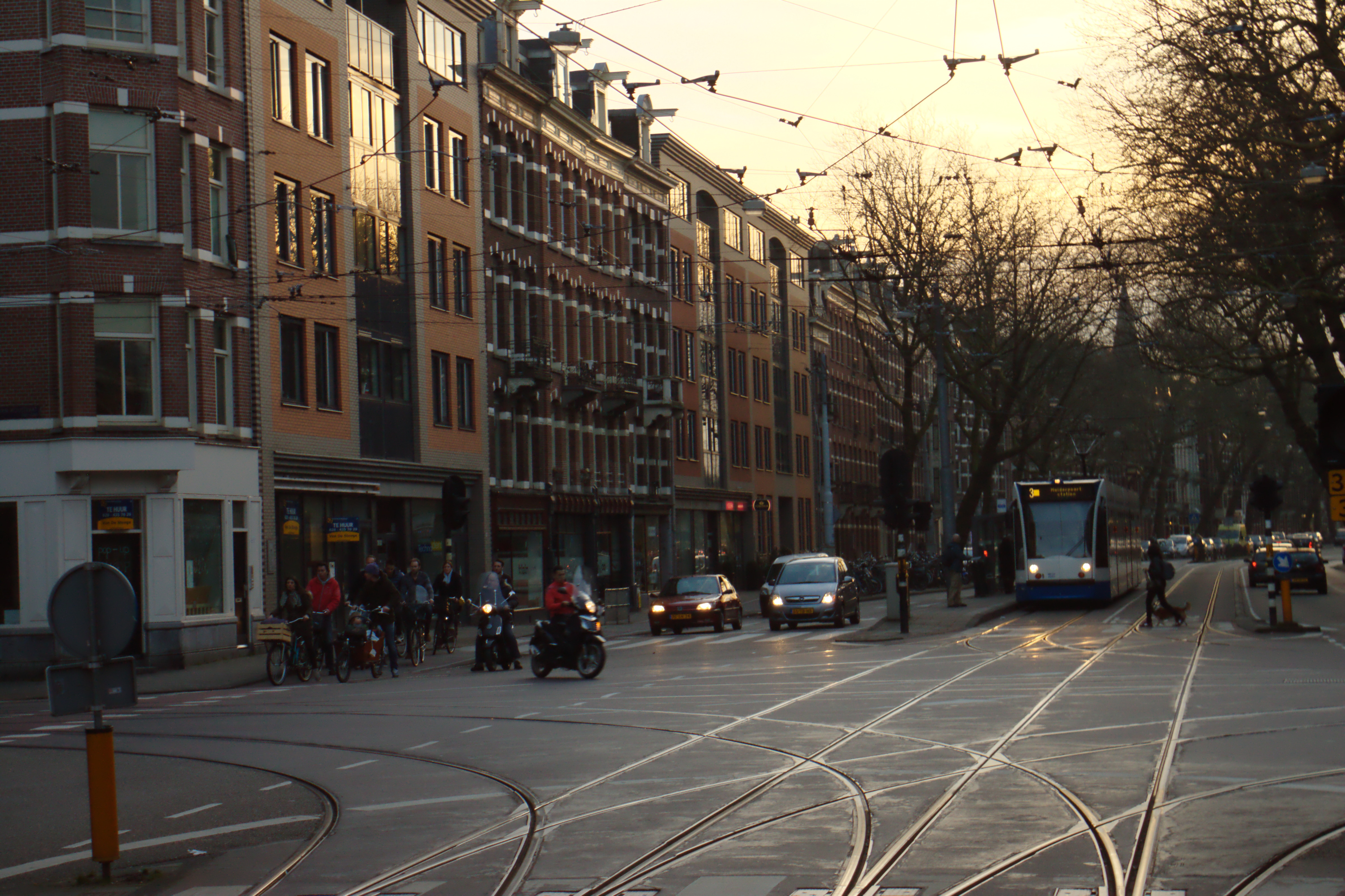 Ceintuurbaan / Van Woustraat crossing, Amsterdam